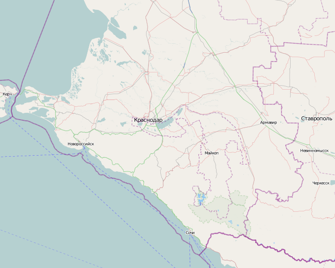 This map may be incomplete, and may contain errors. Don't rely solely on it for navigation.